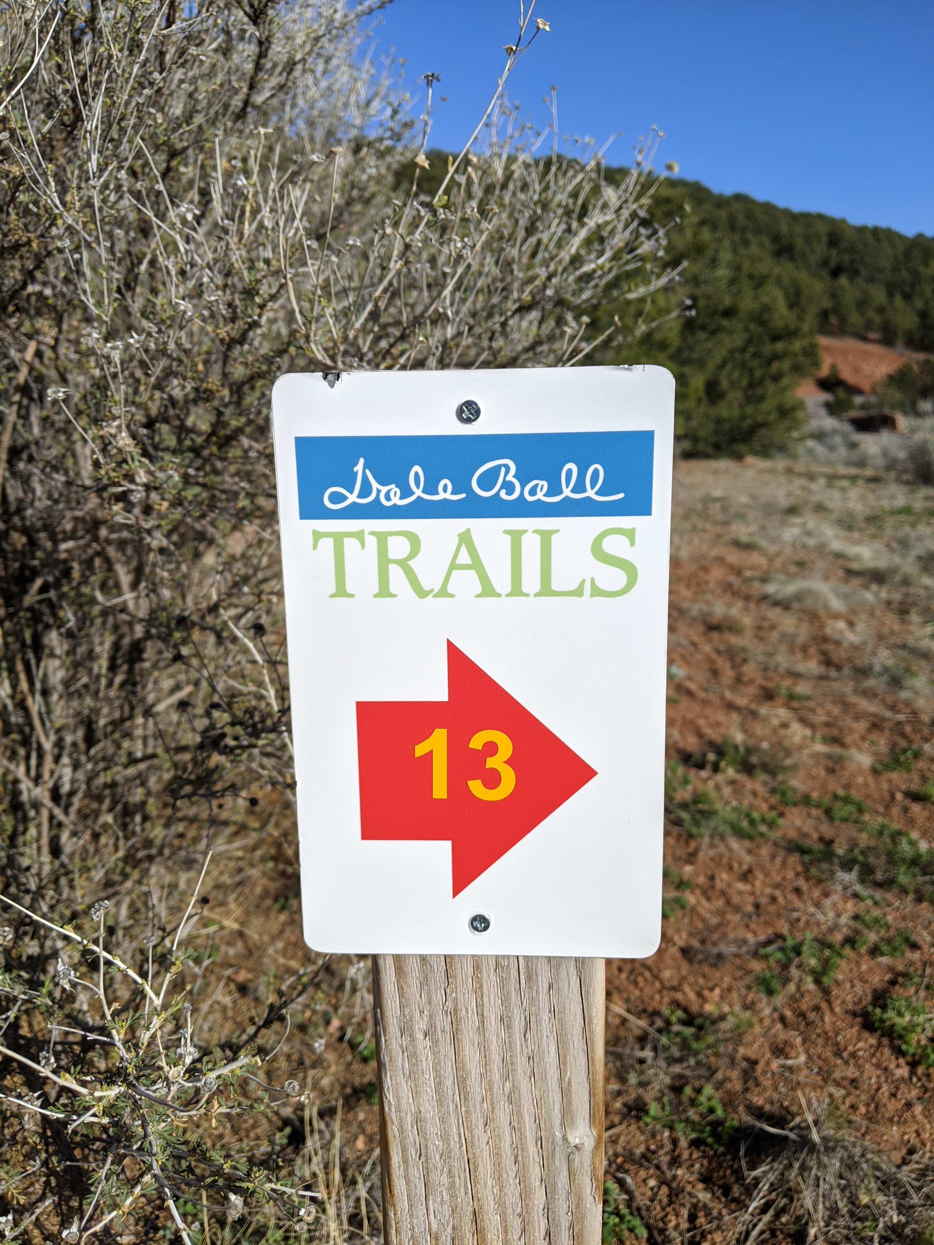 This is a trail marker used for the Santa Fe, NM Dale Ball trail system